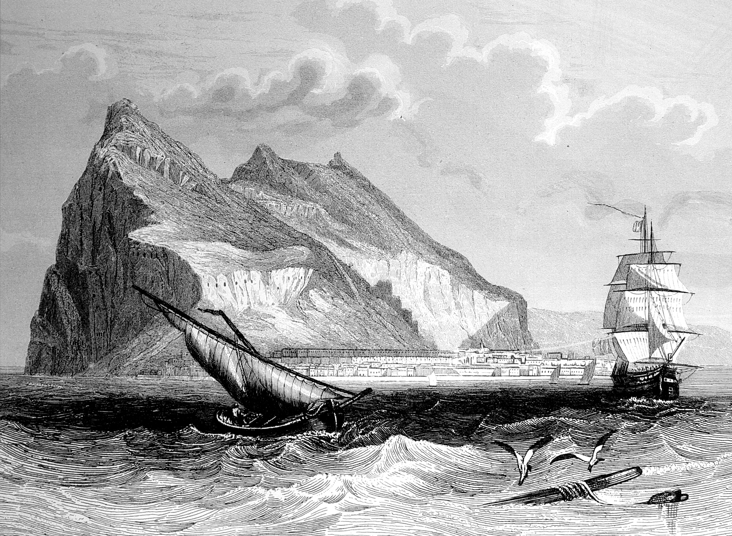 Engraving of Gibraltar as seen from the south, depicting the view as seen in 1852